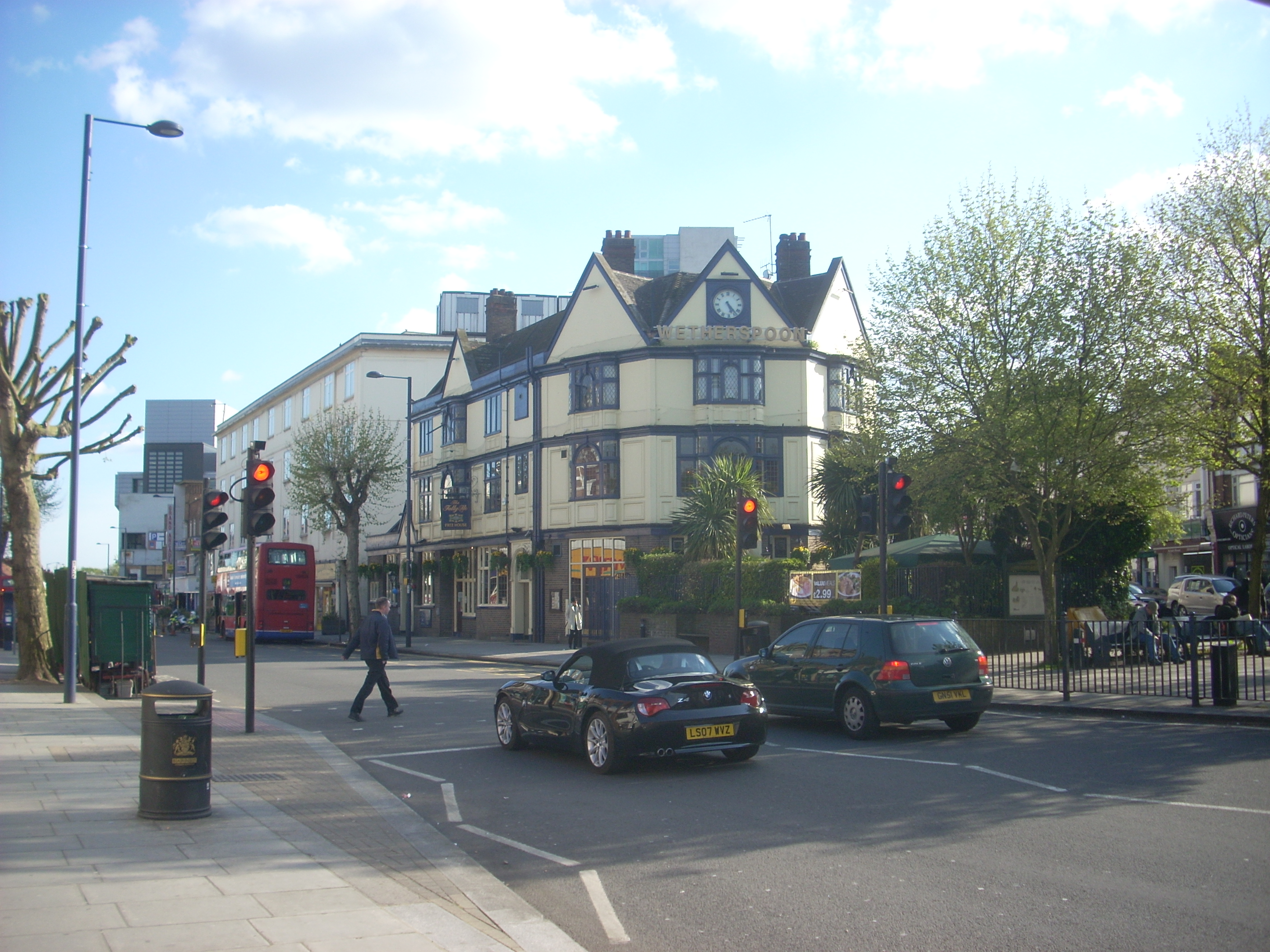 Tally ho corner 2009